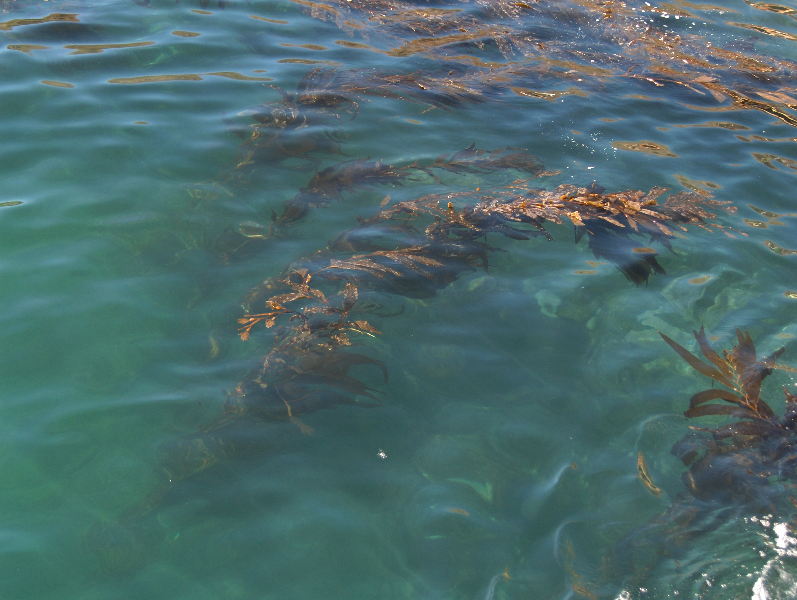 Kelp forest near Santa Cruz island (Prisoners Harbour), Channel Islands National Park, California, USA.